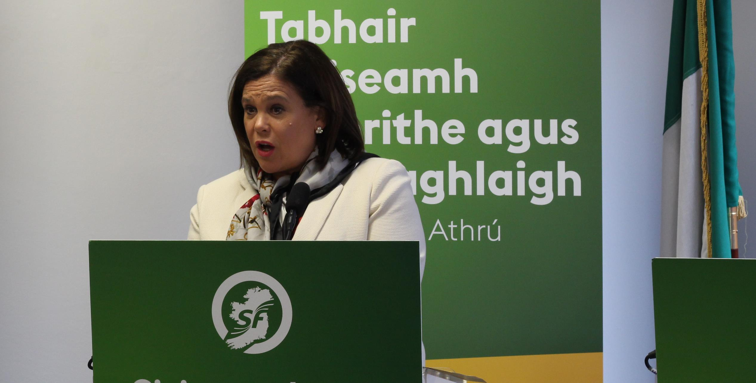 Mary Lou McDonald TD